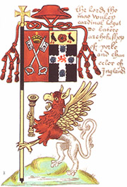 Banner of the arms of Cardinal Cardinal Thomas Wolsey, Archbishop of York and Lord Chancellor of England: Arms: See of York impaling Sable, on a cross engrailed argent a lion passant gules between four leopard's heads azure on a chief or a rose gules between two Cornish choughs proper (Wolsey). Cardinal's hat above. The griffin supporter holds the Mace of the Lord Chancellor.